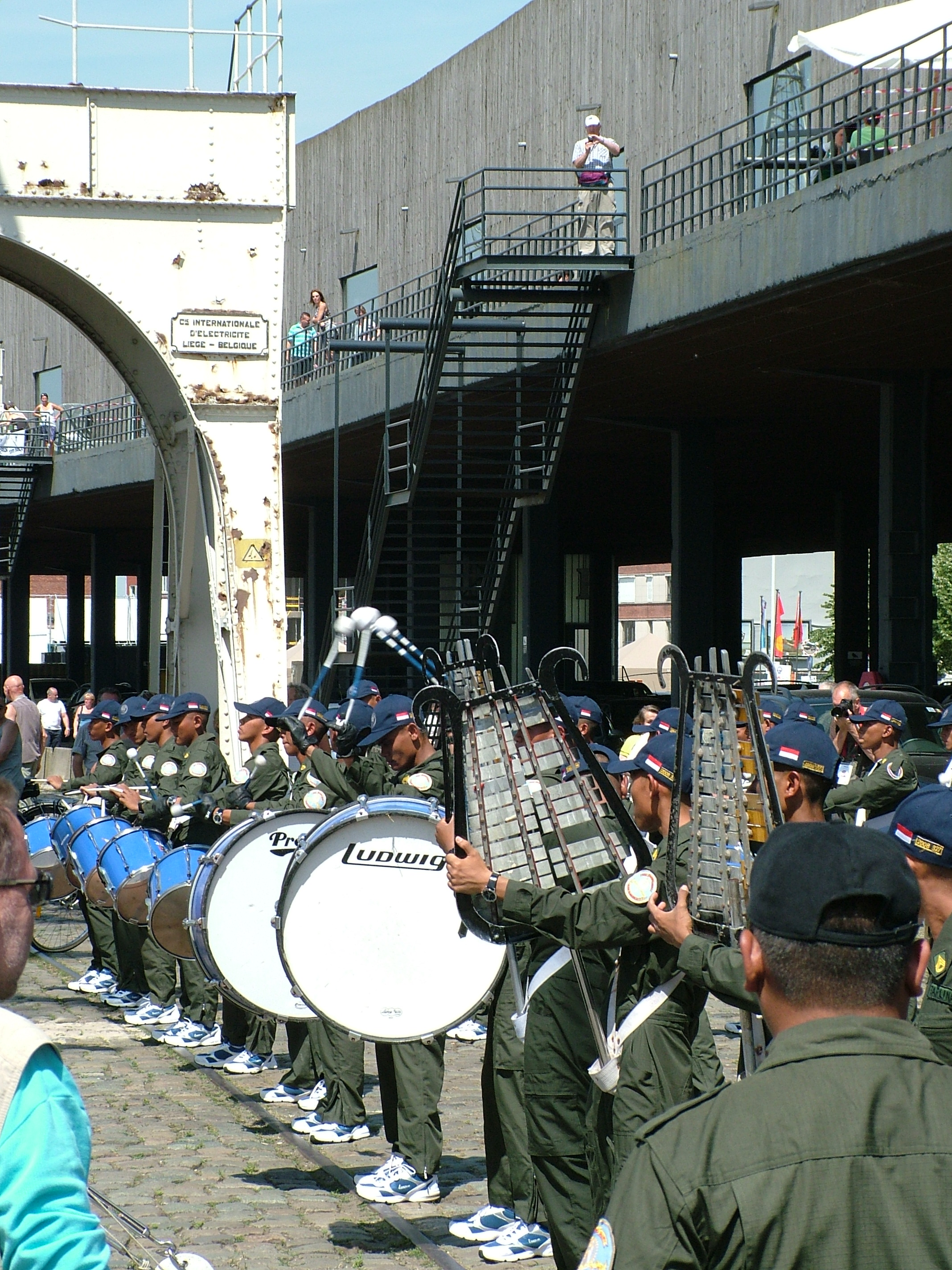 The crew of the Indonesian sailship Dewaruci making music for the visitors of the ship during the Tall ships race 2010